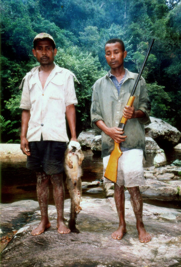 White-fronted Brown Lemur (Eulemur albifrons) killed in northeast Madagascar for bushmeat